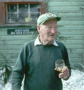 Harry Truman, chose not to evacuate from his Spirit Lake lodge before May 18, 1980